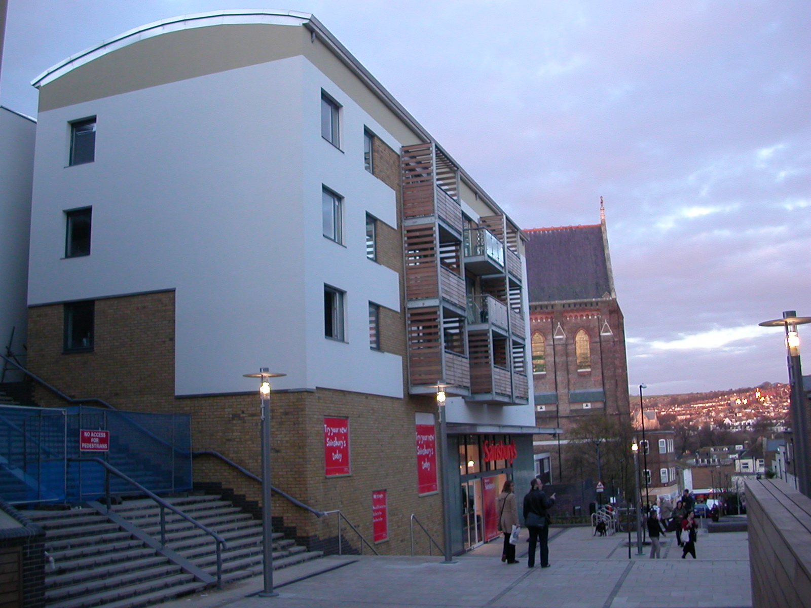 Newly-opened Sainsbury's in the New England Quarter, Brighton. Photographed on 1st March 2007.